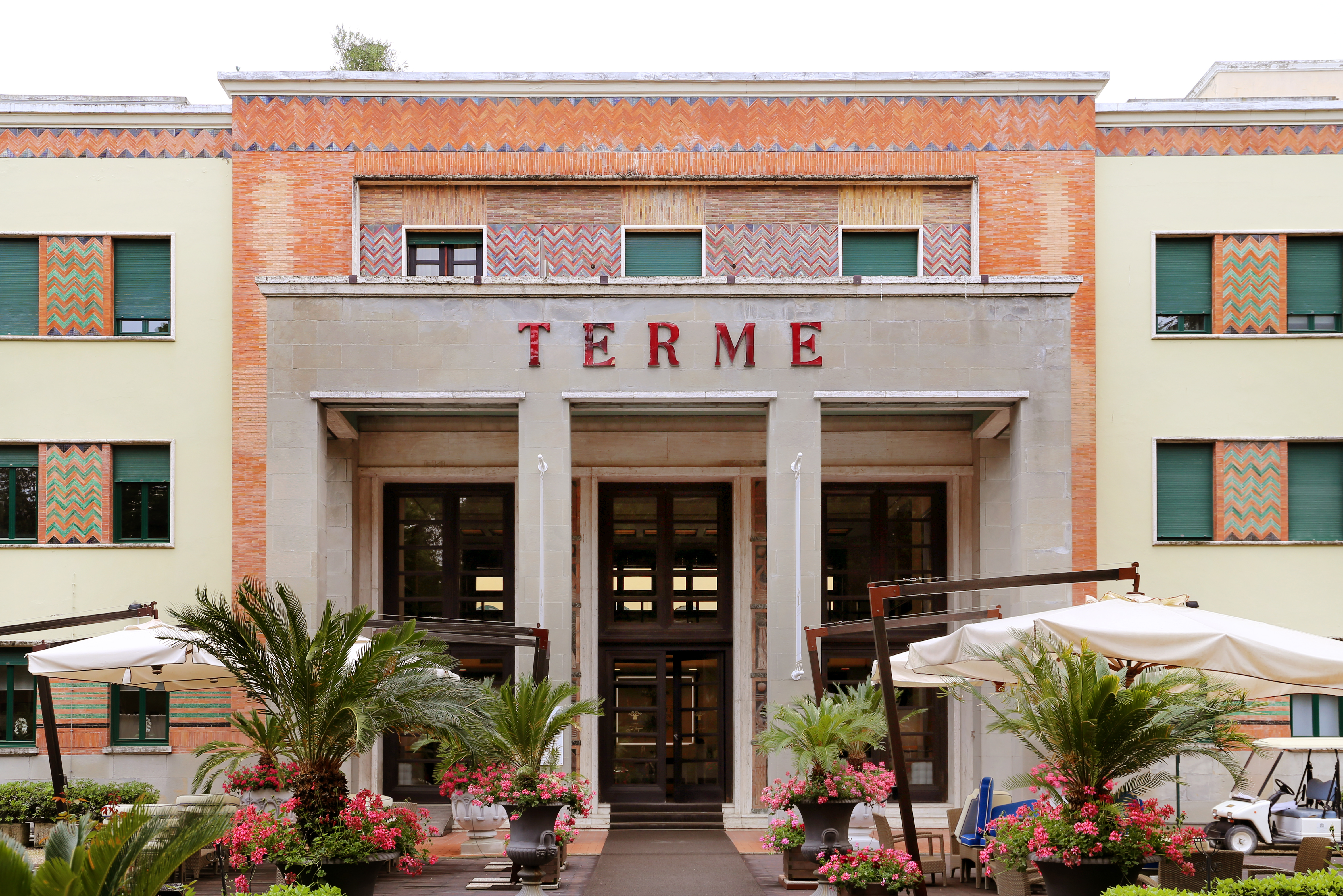 Grand Hotel & SPA (Castrocaro Terme)